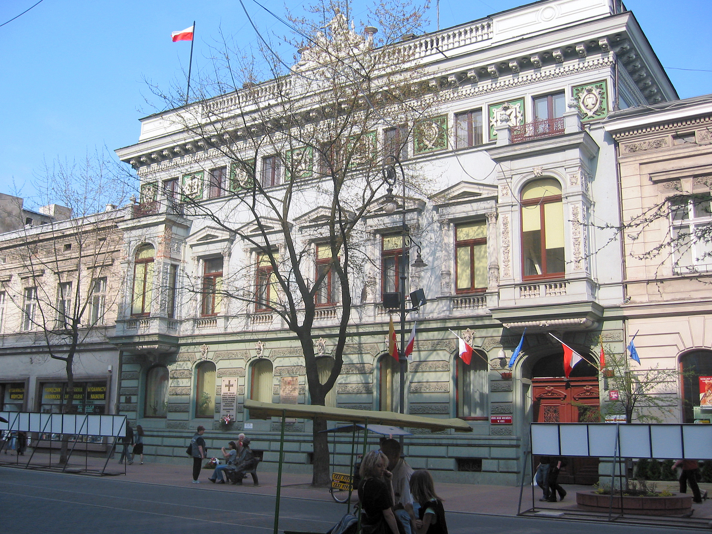 Heinzel Palace (currenty Łódź City Hall and the offices of the Łódź Voivodeship) in Łódź at Piotrowska street #104